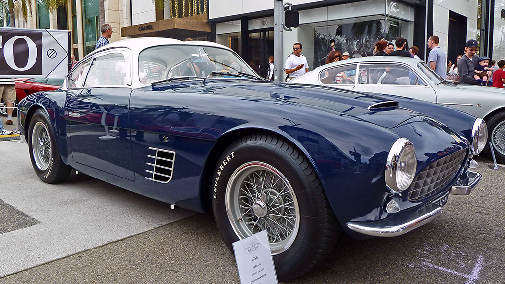 1956 Ferrari 250 GT berlinetta by Zagato, exhibited at the 2011 Rodeo Drive Concours d'Elegance. Since c. 2000 owned by David Sydorick,[1] and chassis #0515GT.[2]